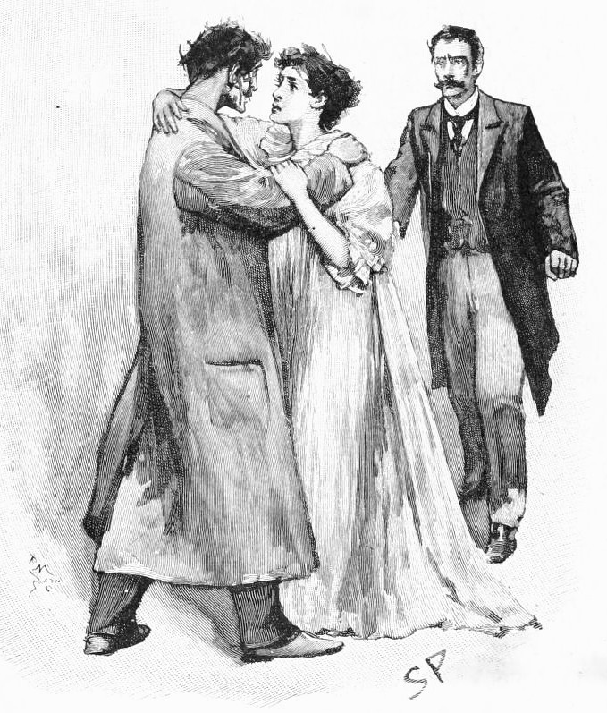 Illustration of the Sherlock Holmes adventure The Greek Interpreter, which appeared in The Strand Magazine in September, 1893. Original caption was "SOPHY! SOPHY!"